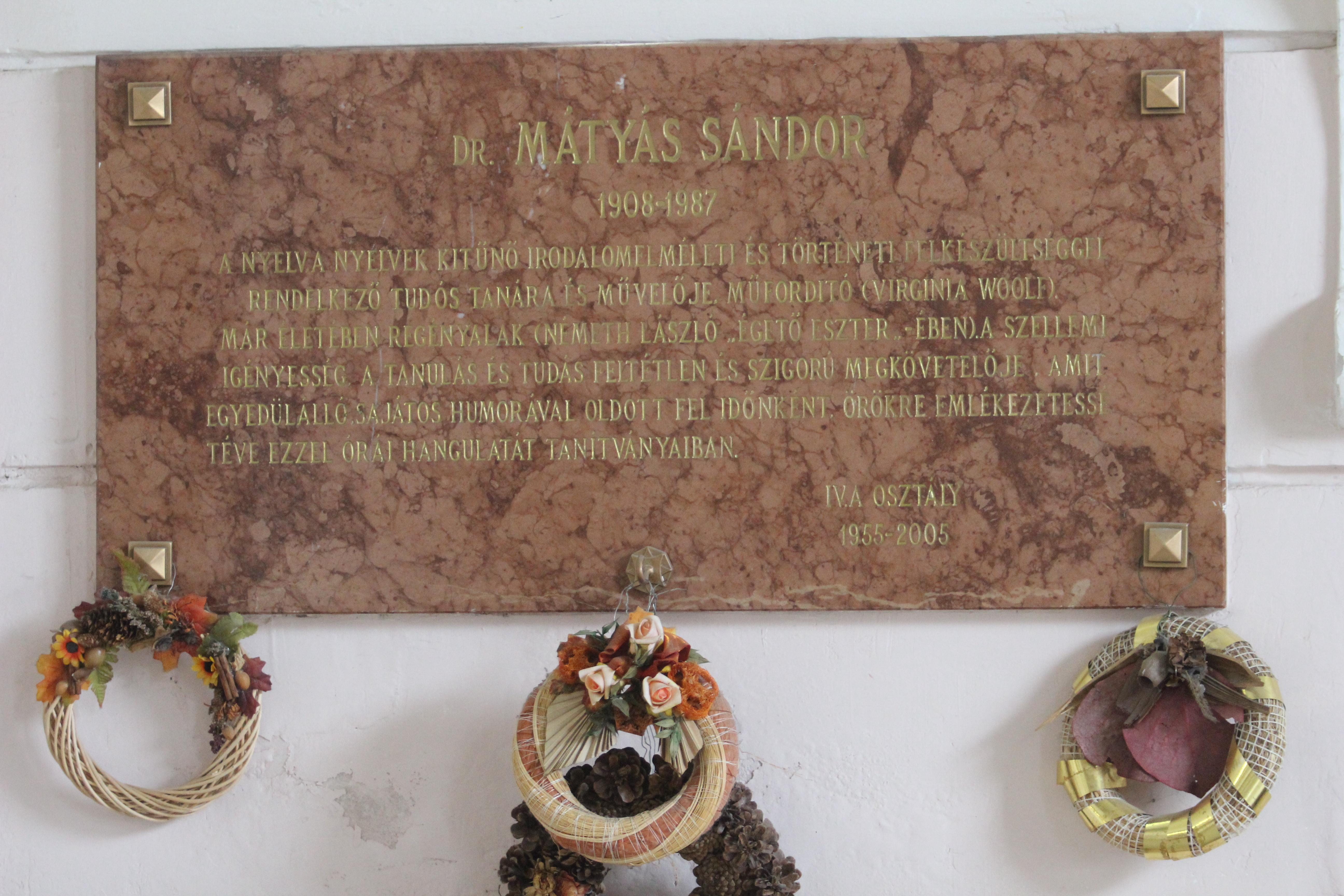 Plaque of Sandor, Matyas (1908–1987) in the high school in Szentes